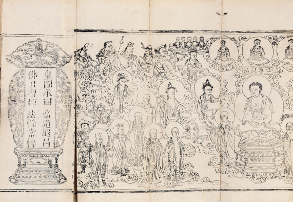 3-P17-26